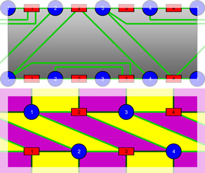 Solution of water, gaz and electricity enigma for a torus (4).